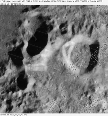 Lunar Orbiter IV-103H Calippus is the moderate sized crater on the right; the large ruined crater with the high wall casting shadows to its west is Calippus C. The lesser peaks to the south of that are unnamed.